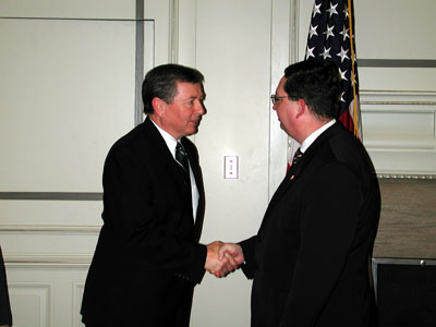 Congressman Kerns meets with U.S. Attorney General John Ashcroft to discuss federal prison matters.